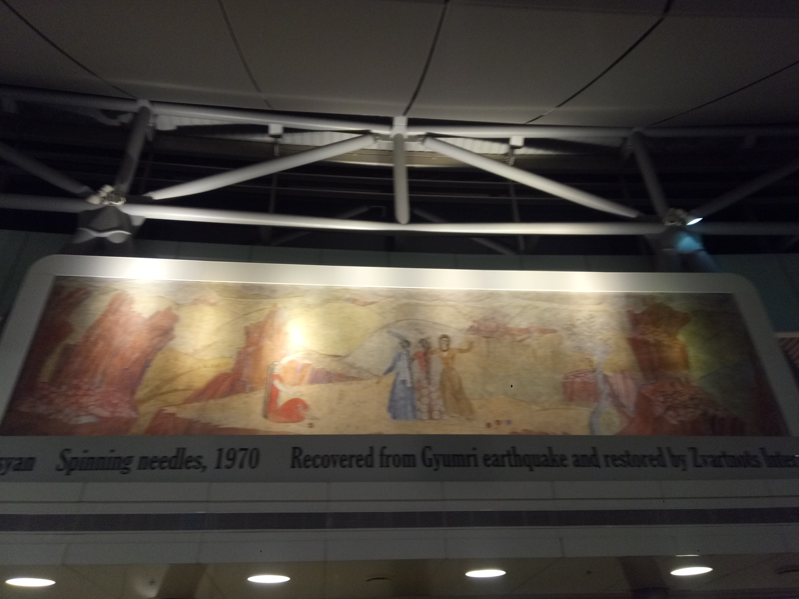 "Spinning Needles" (1970) by Minas Avetisyan at Zvartnots International Airport, Yerevan, Armenia. It was damaged in Gyumri in 1988 Armenian earthquake removed and restored by Zvartnoc airport, Yerevan